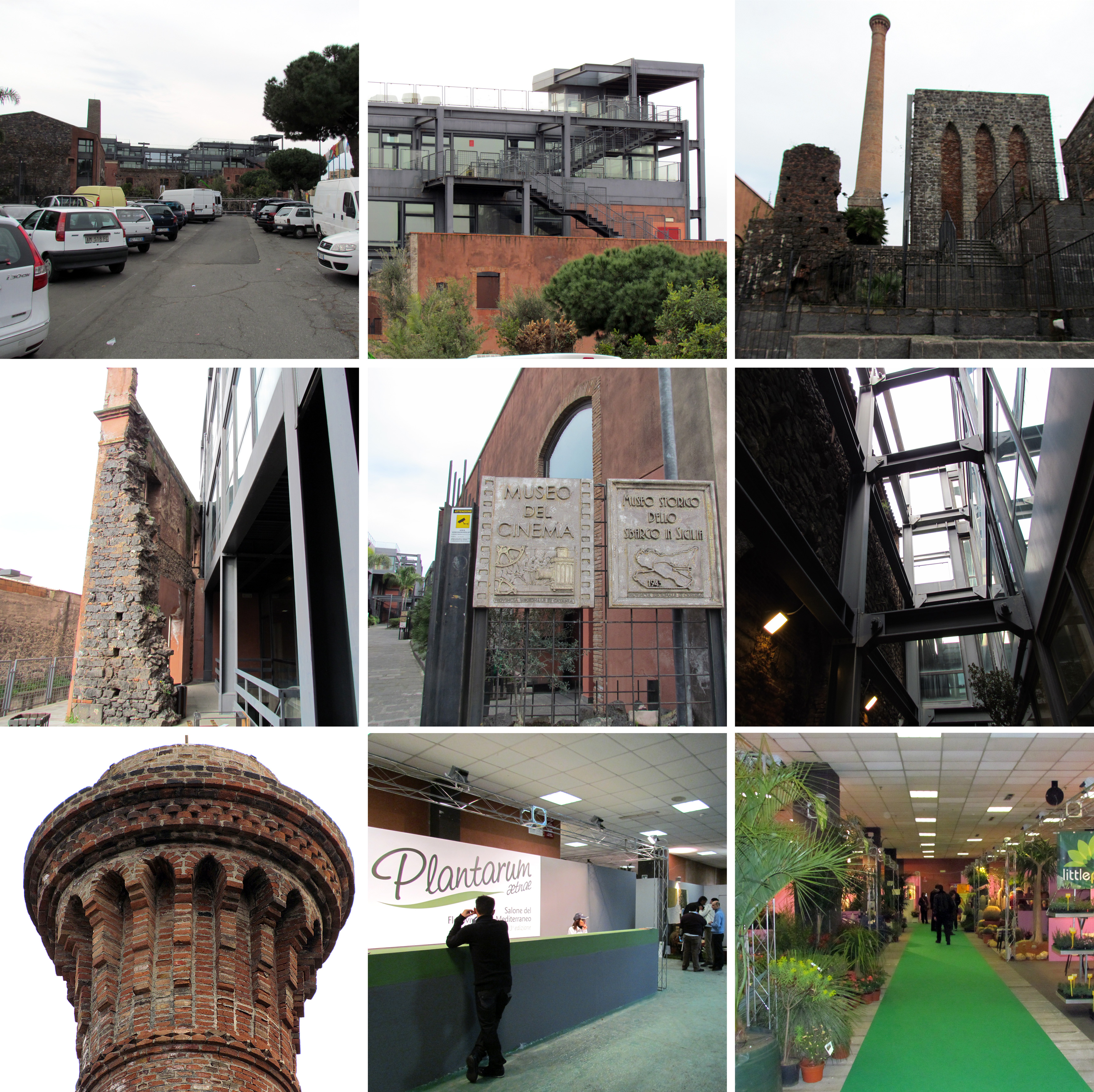 Le Ciminiere exhibition center in Catania.